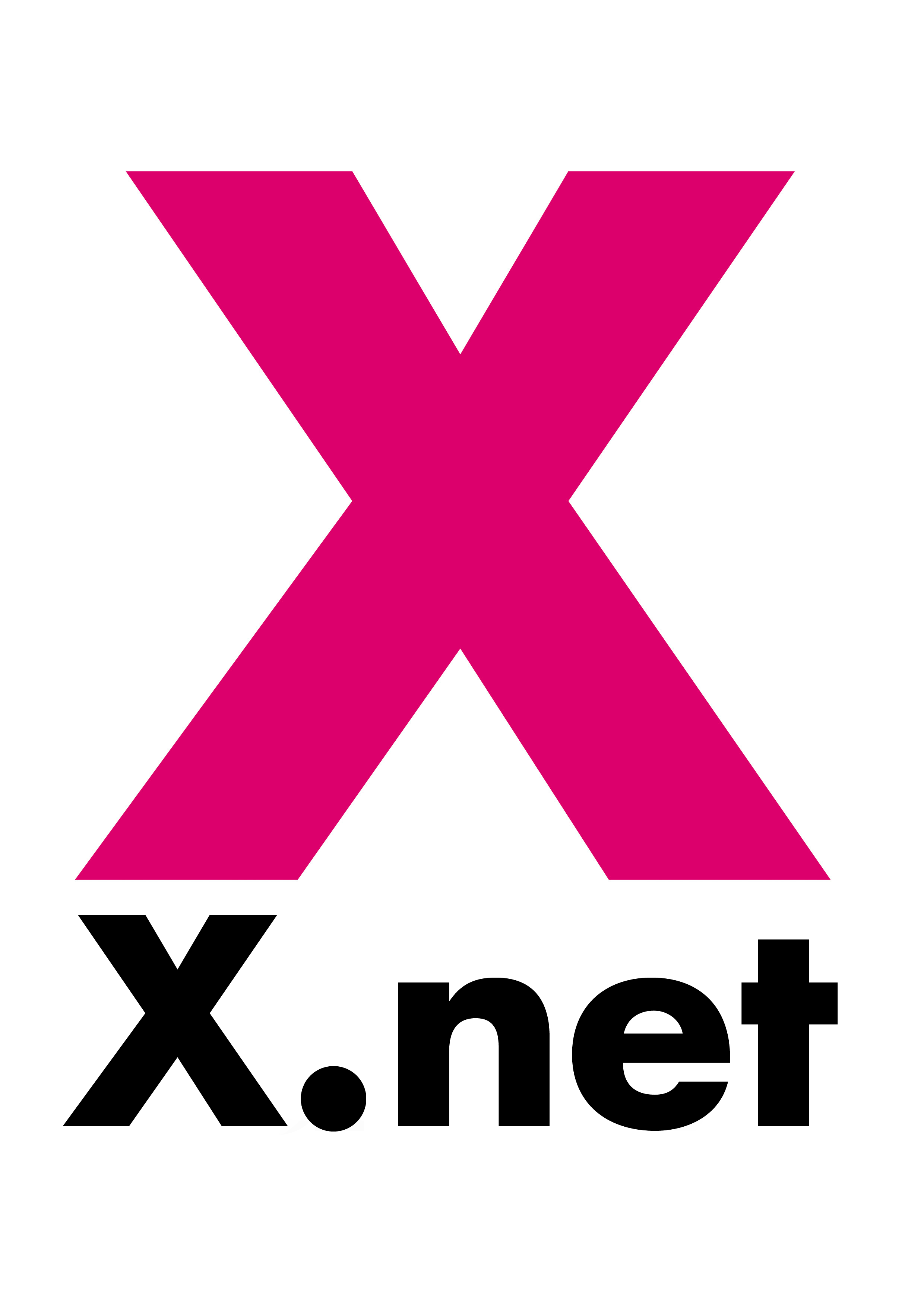 logo